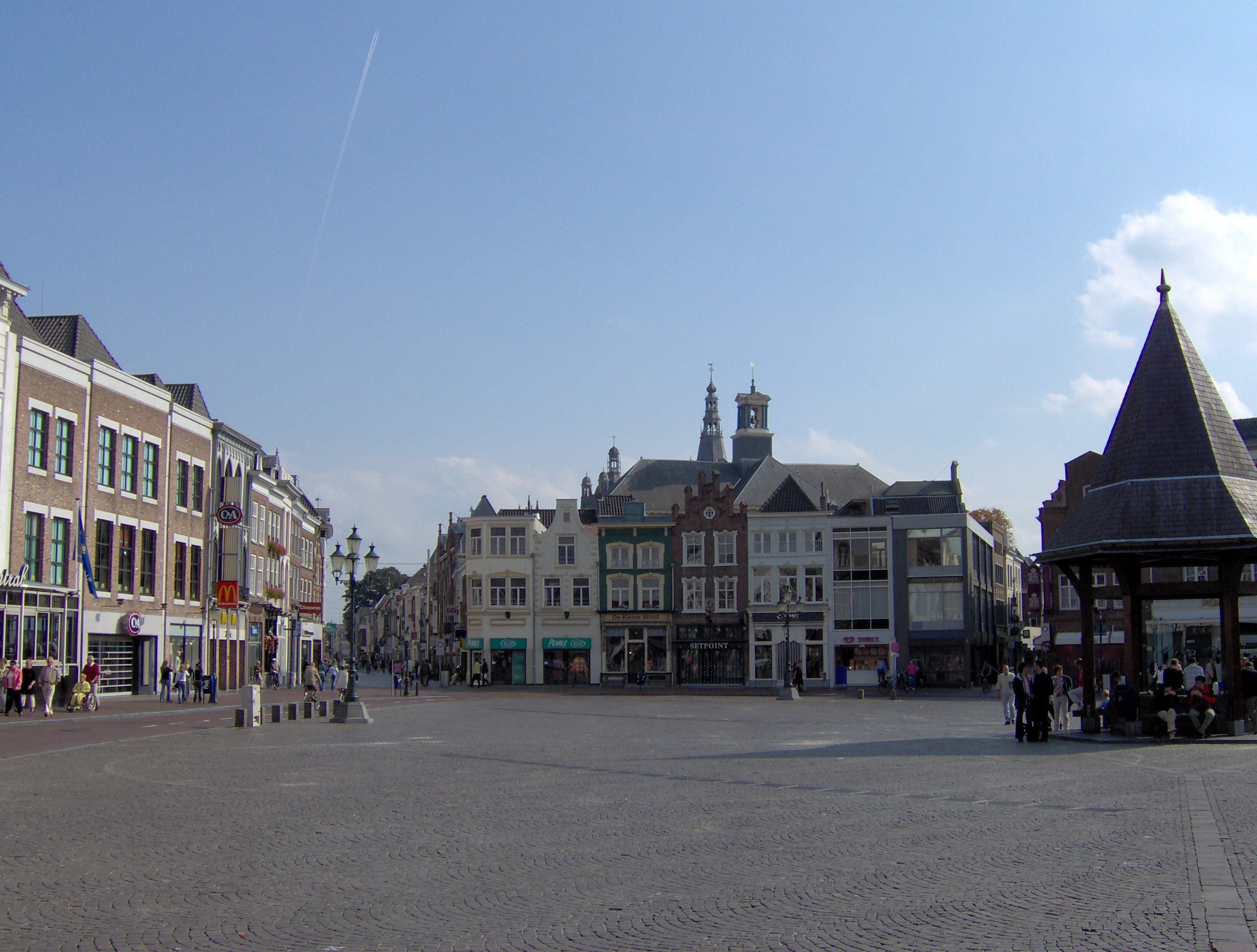 Markt ('s-Hertogenbosch)